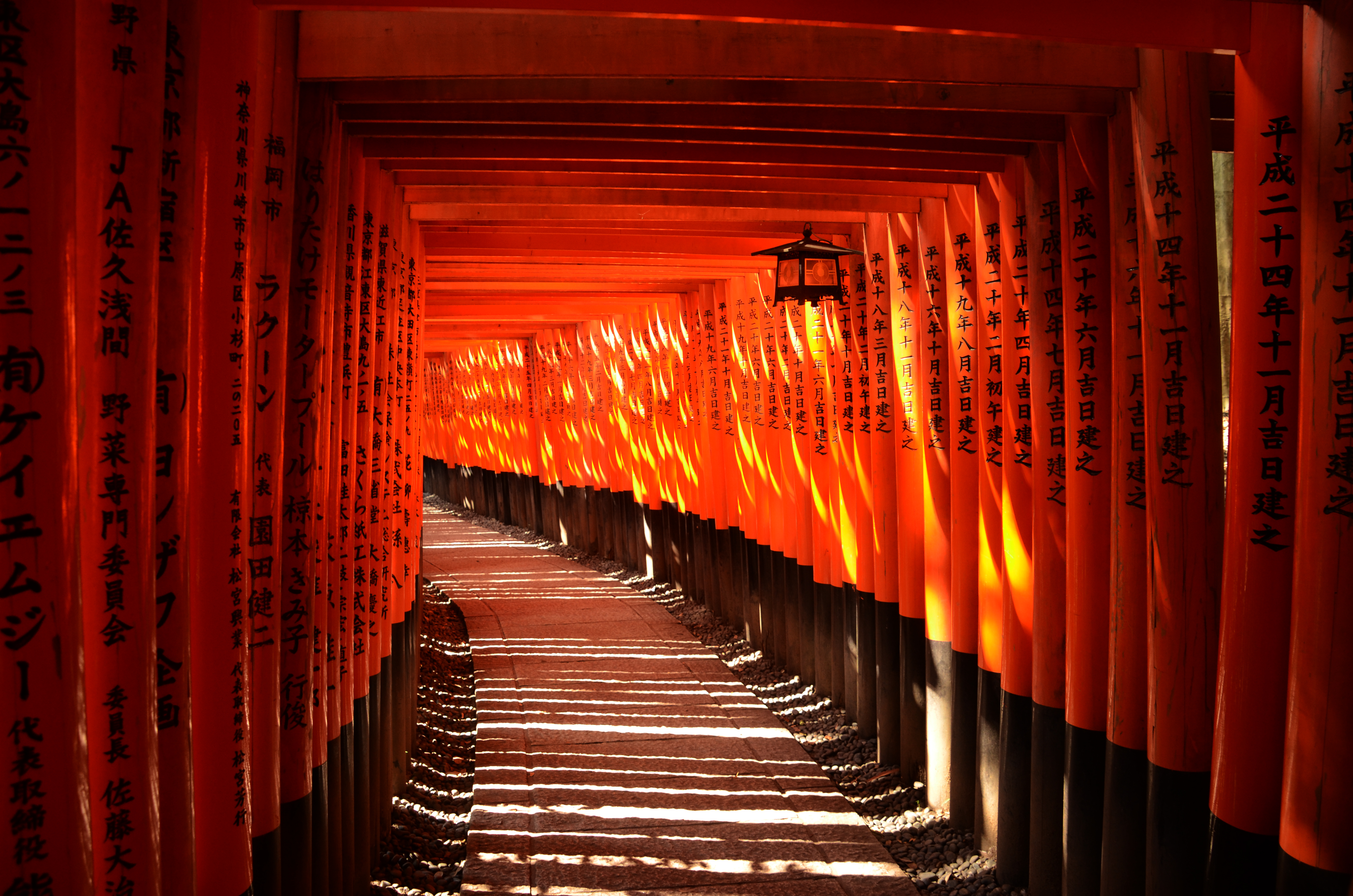 Fushimi Inari. Kyoto, Japan